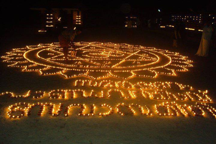 pandavarkavu temple muthukulam,alappey